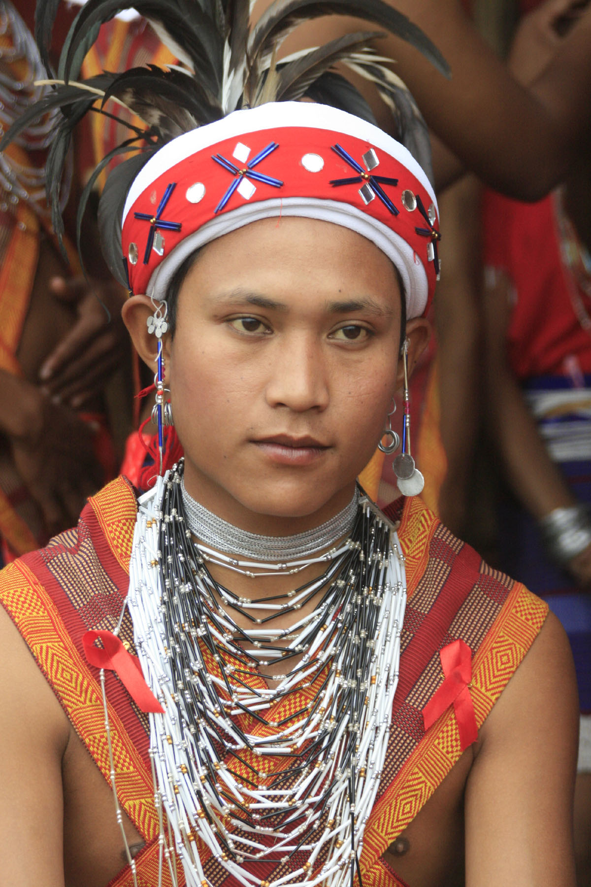 Indian Garo Treble Boy with there Traditional Dress .